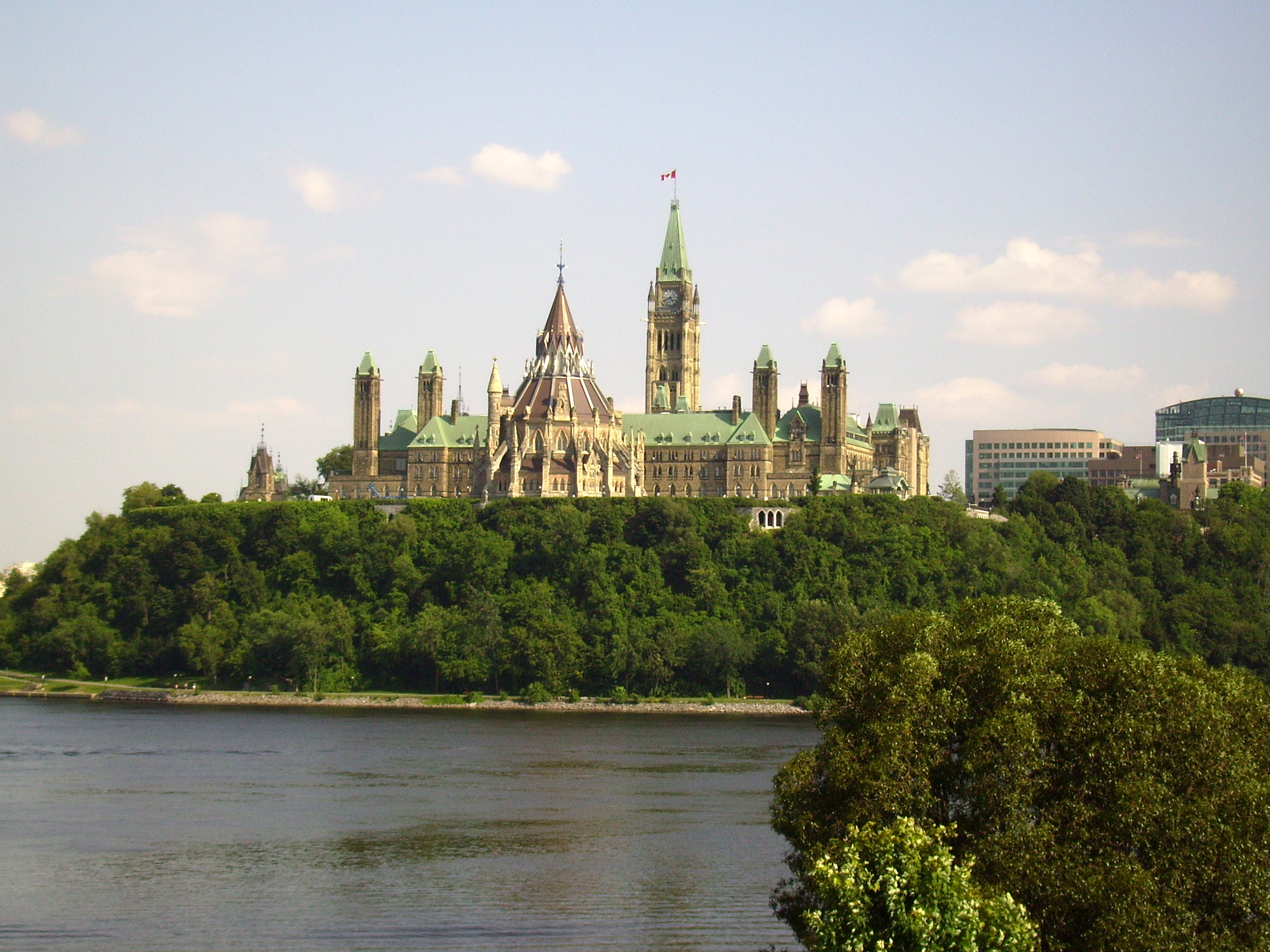 Canadian parliament from the Musée canadien des Civilisations in Gatineau